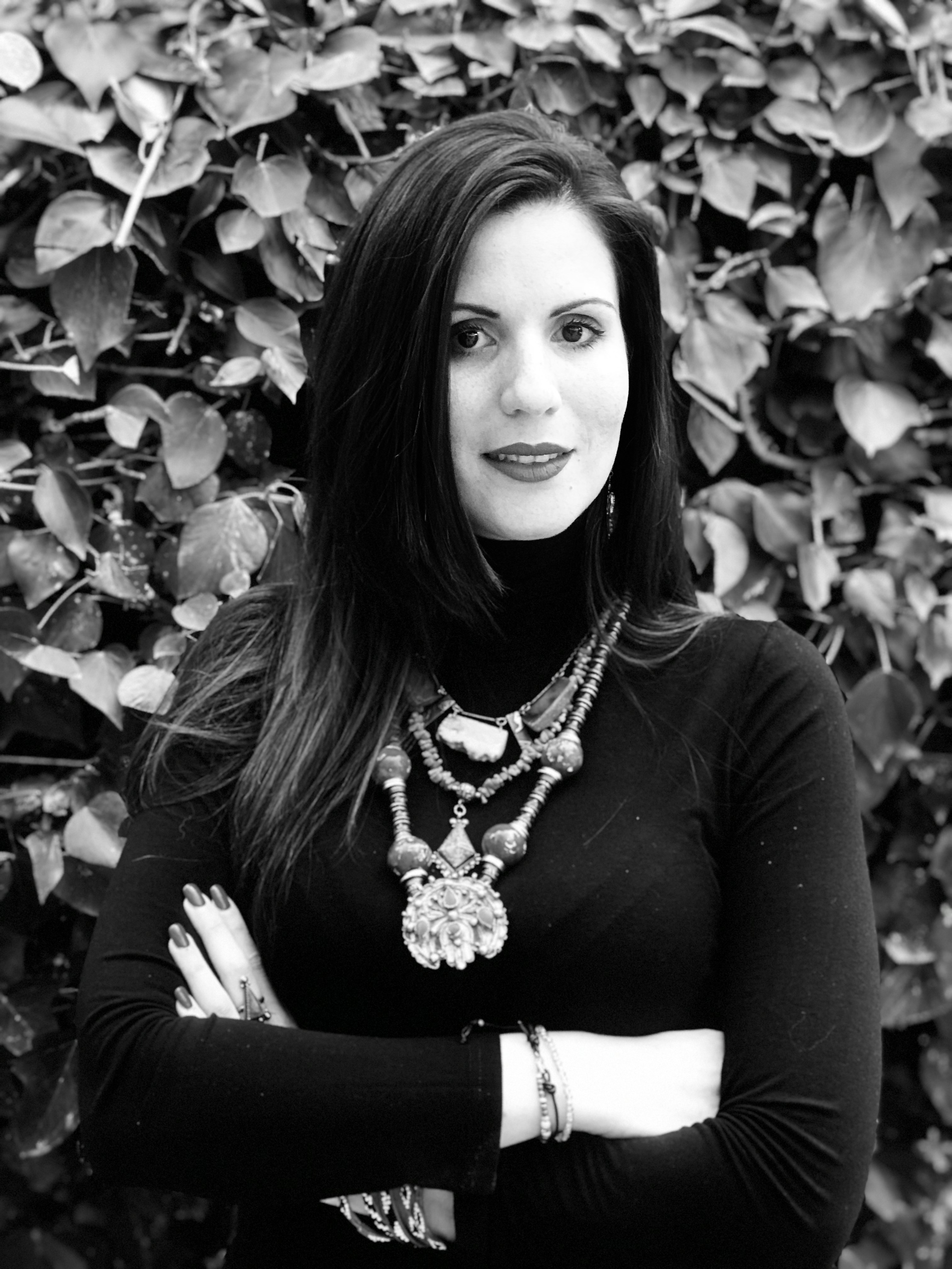 the portrait of Nahla El Fatiha Naili